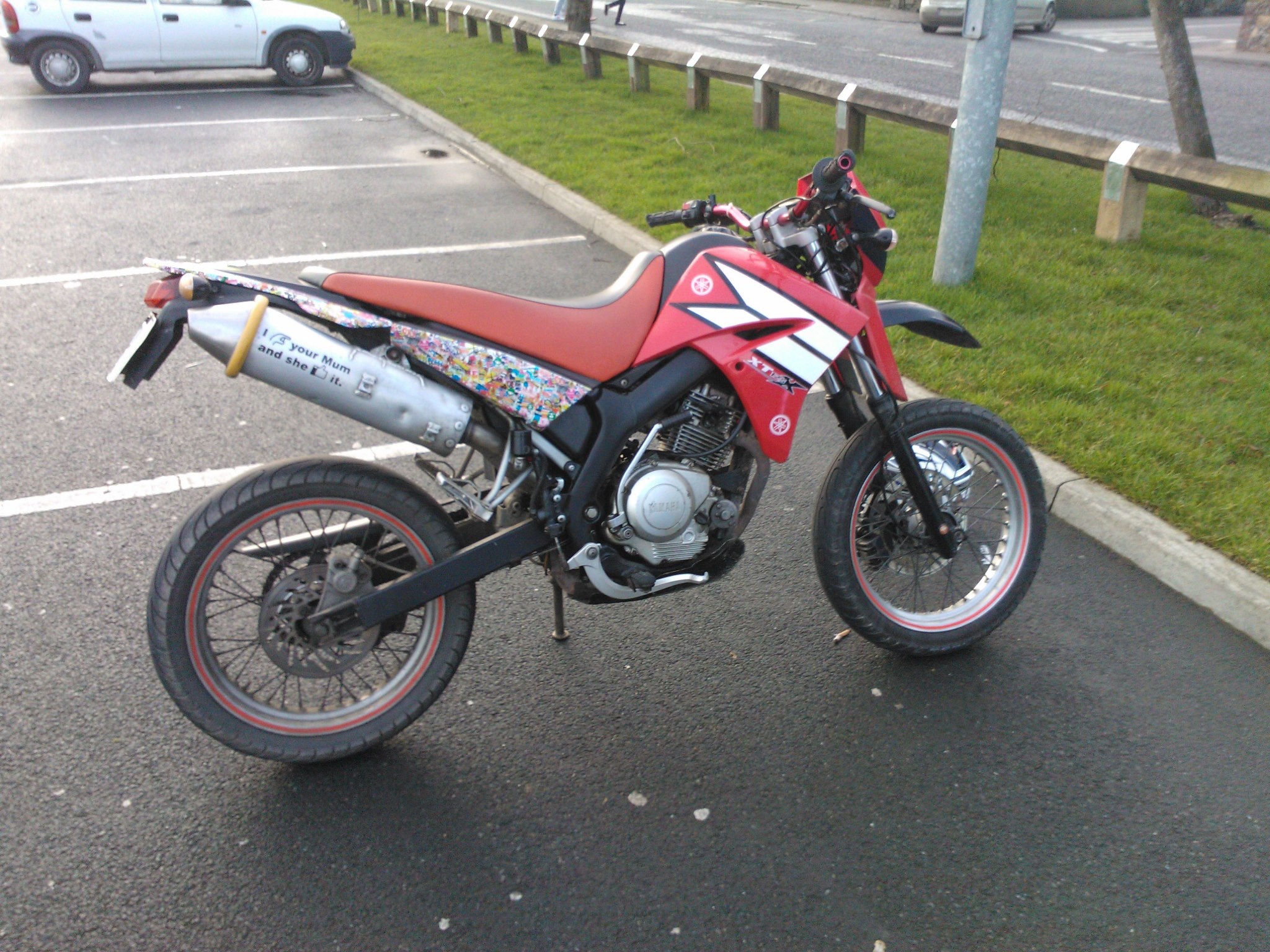 Supermotard xt125x 124cc aircooled.